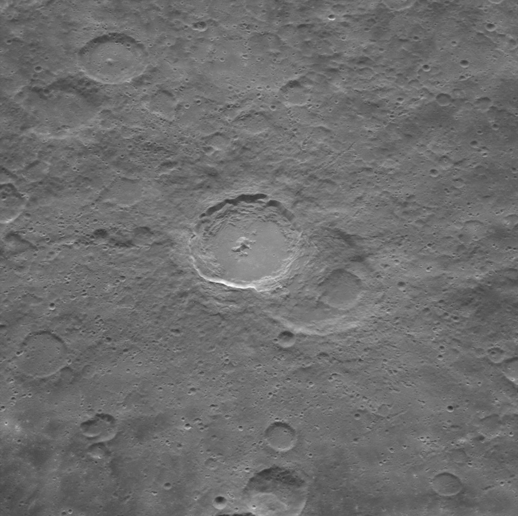 Oblique view of Erté crater on Mercury. MESSENGER Wide Angle Camera image. Approximate north is to the right. Emission Angle: 25.5 Incidence Angle: 57.1 Latitude: 27.6 Longitude: 242.9 Phase Angle: 82.4